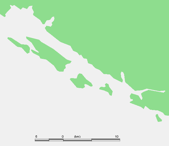 Island of Croatia - Croatia - Elafit Islands detail.PNG